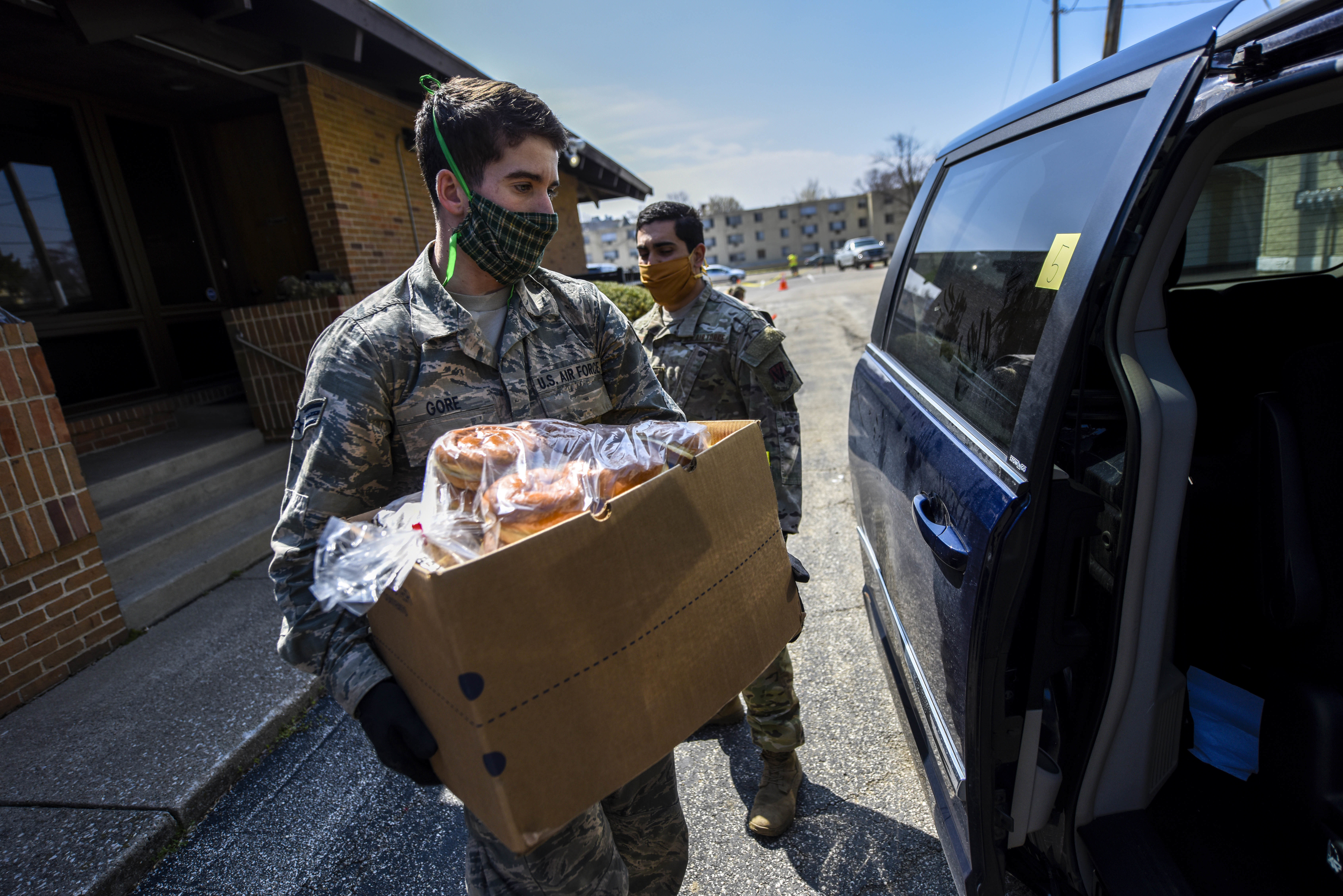 U.S. Air Force Senior Airman Brandon Gore, a firefighter assigned to the Ohio National Guard’s 180th Fighter Wing, loads food into a community member’s vehicle at Lutheran Social Services in Toledo, Ohio, April 24, 2020. The SeaGate Food Bank, alongside Lutheran Social Services, provided community members the opportunity to receive boxed meals. More than 500 Ohio National Guard members were activated to provide humanitarian missions in support of COVID-19 relief efforts, continuing the Ohio National Guard’s long history of supporting humanitarian efforts throughout Ohio and the nation. (U.S. Air National Guard photo by Senior Airman Kregg York)